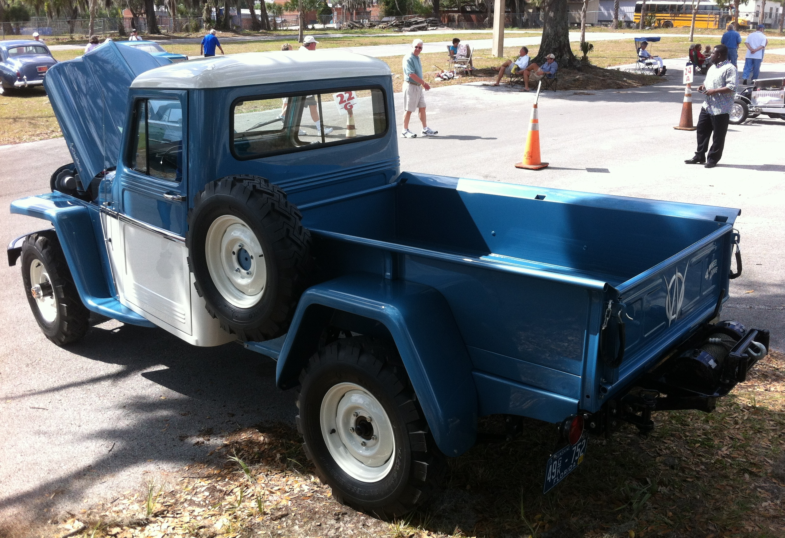 1963 Jeep Willys pickup truck by built by Kaiser, finished in factory two-tone paint. Standard four-wheel-drive and equipped with the newly introduced 230 cu in (3.78 L) OHC "Tornado" straight-six engine. Picture taken at the 2013 Antique Automobile Club of America (AACA) meet in Lakeland, Florida